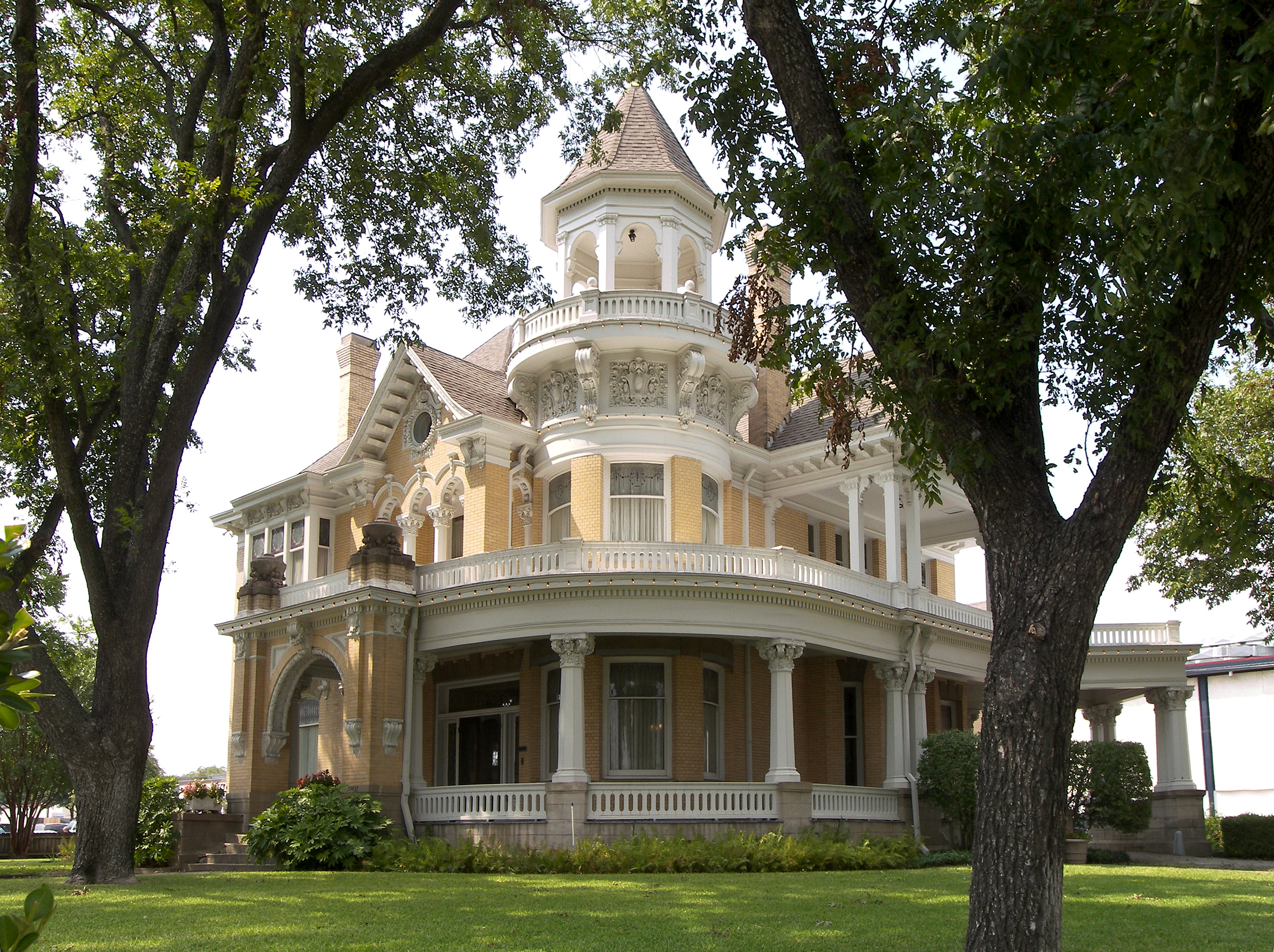 The Madison Cooper House in Waco, Texas, United States. The house was listed on the National Register of Historic Places on July 8, 1982.